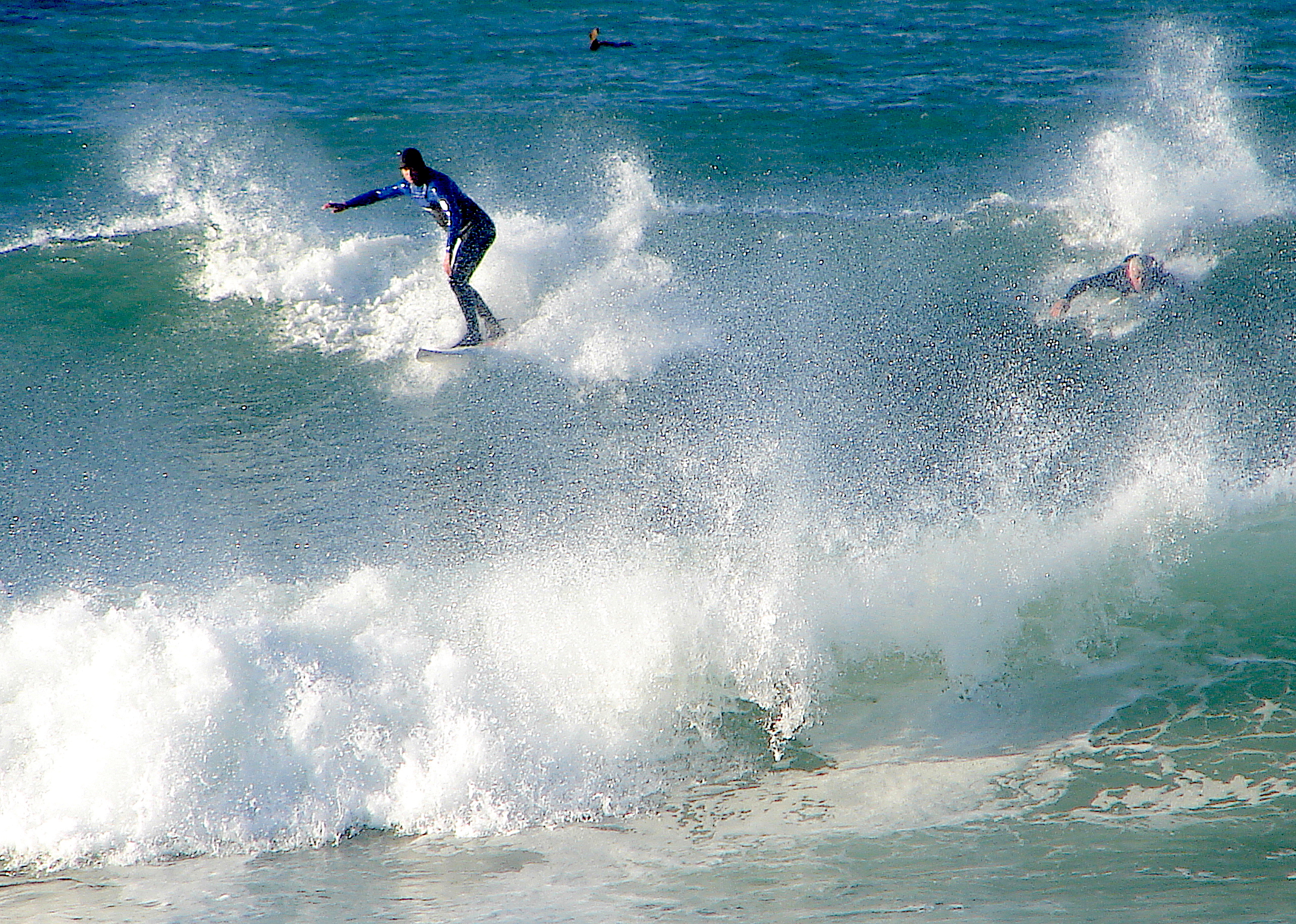 Surfer at Noordhoek Beach, South Africa